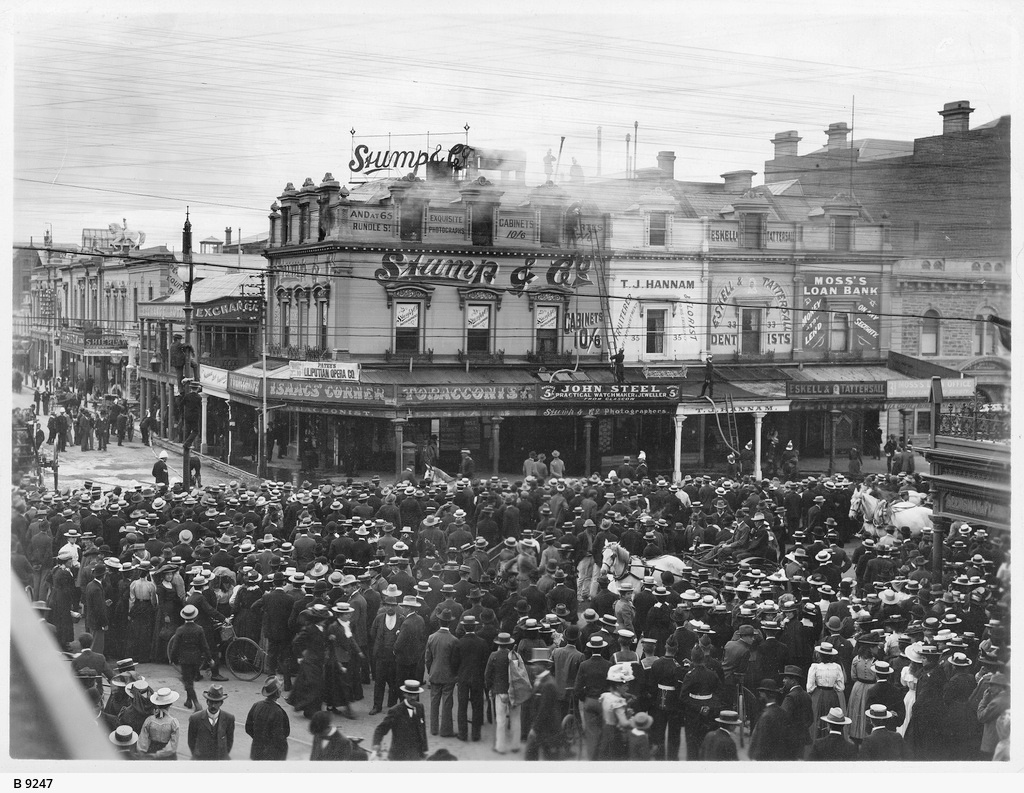 Building NW corner of Hindley and King William Streets, Adelaide